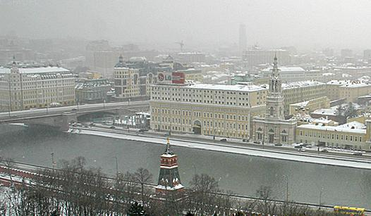 A view over Zamoskvorechye District from the Kremlin.